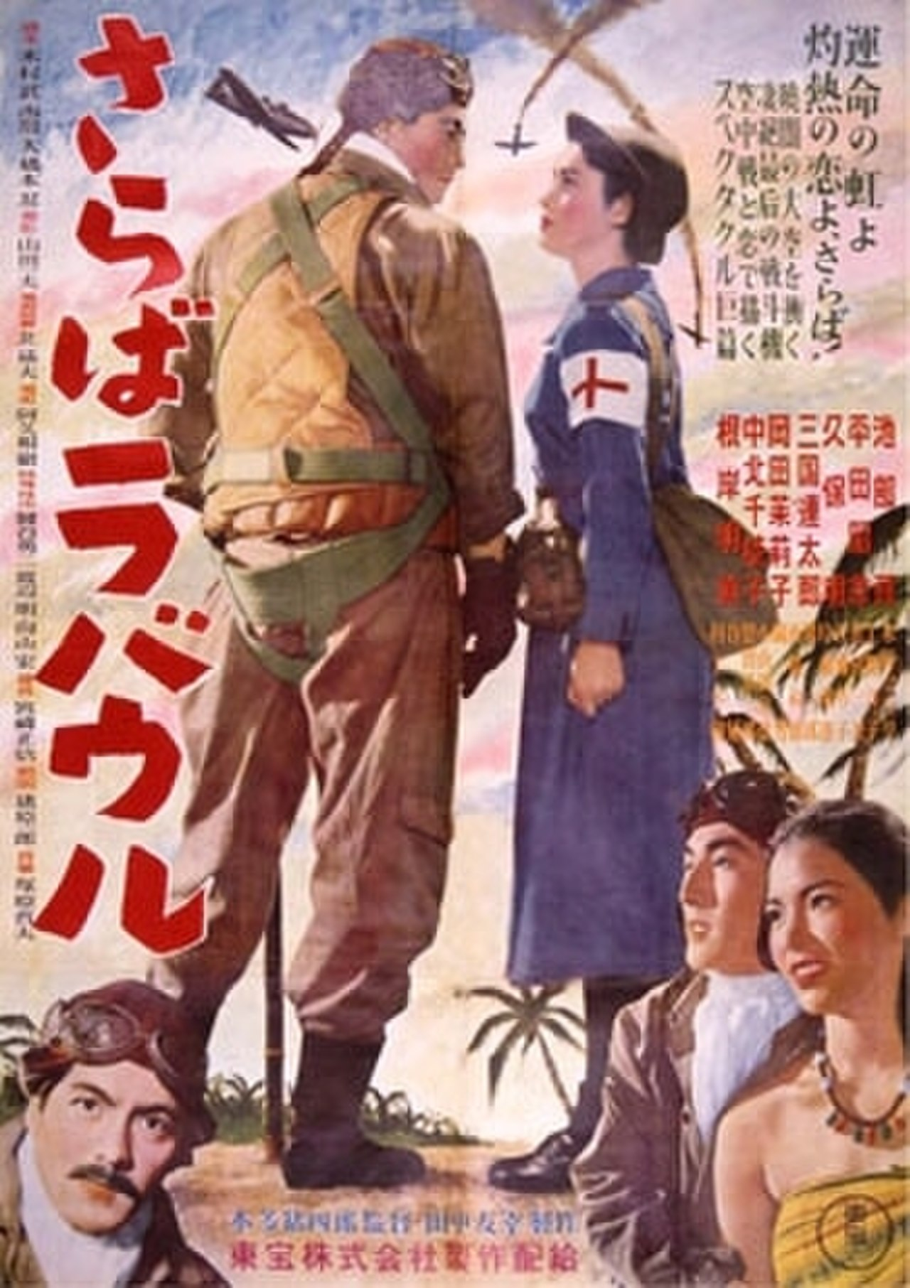 Japanese movie poster for 1954 Japanese film Farewell Rabaul (Saraba Rabauru)